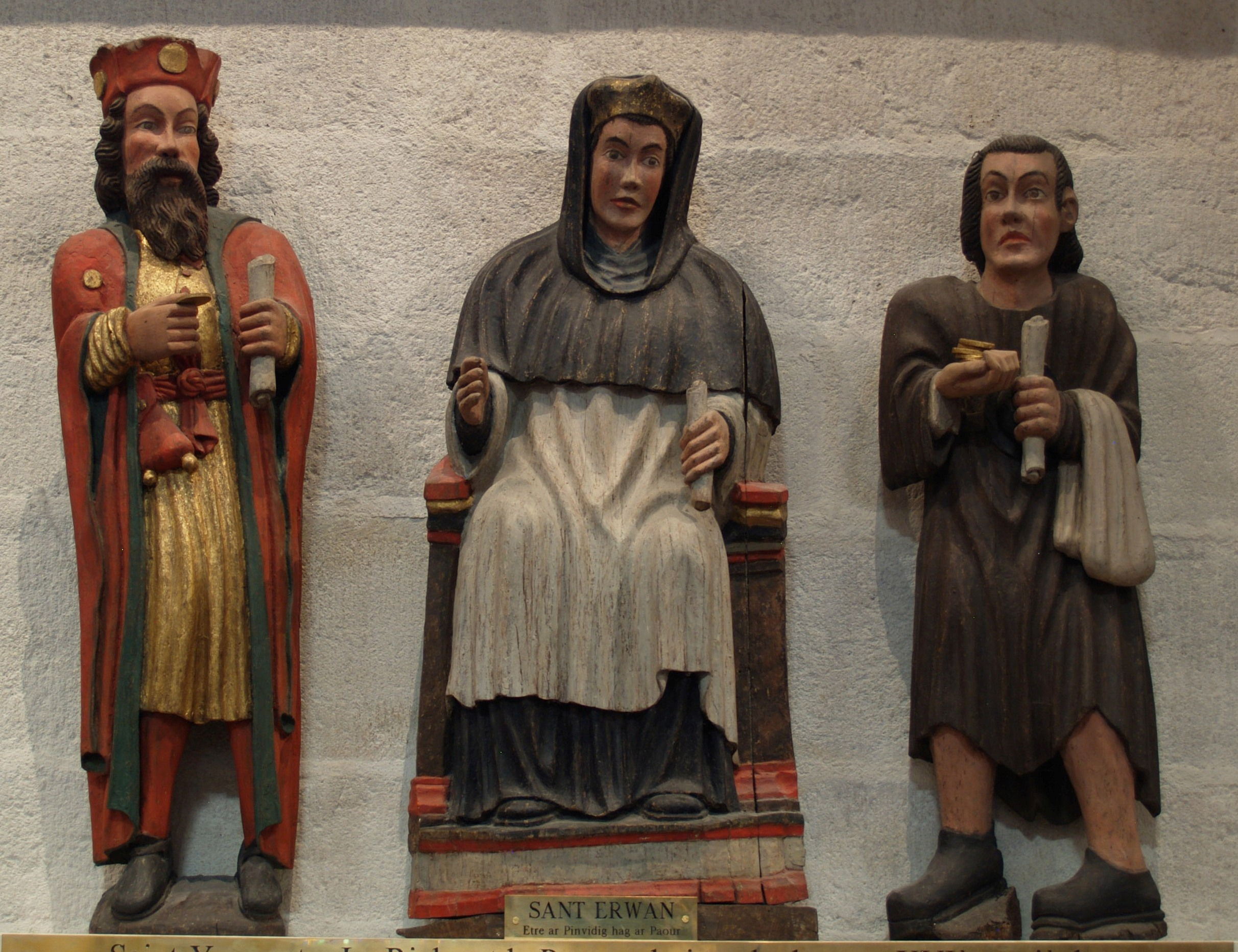 St. Ives among the rich man and the poor man. Wood sculpture, 16th. cent. Cathedral of Quimper